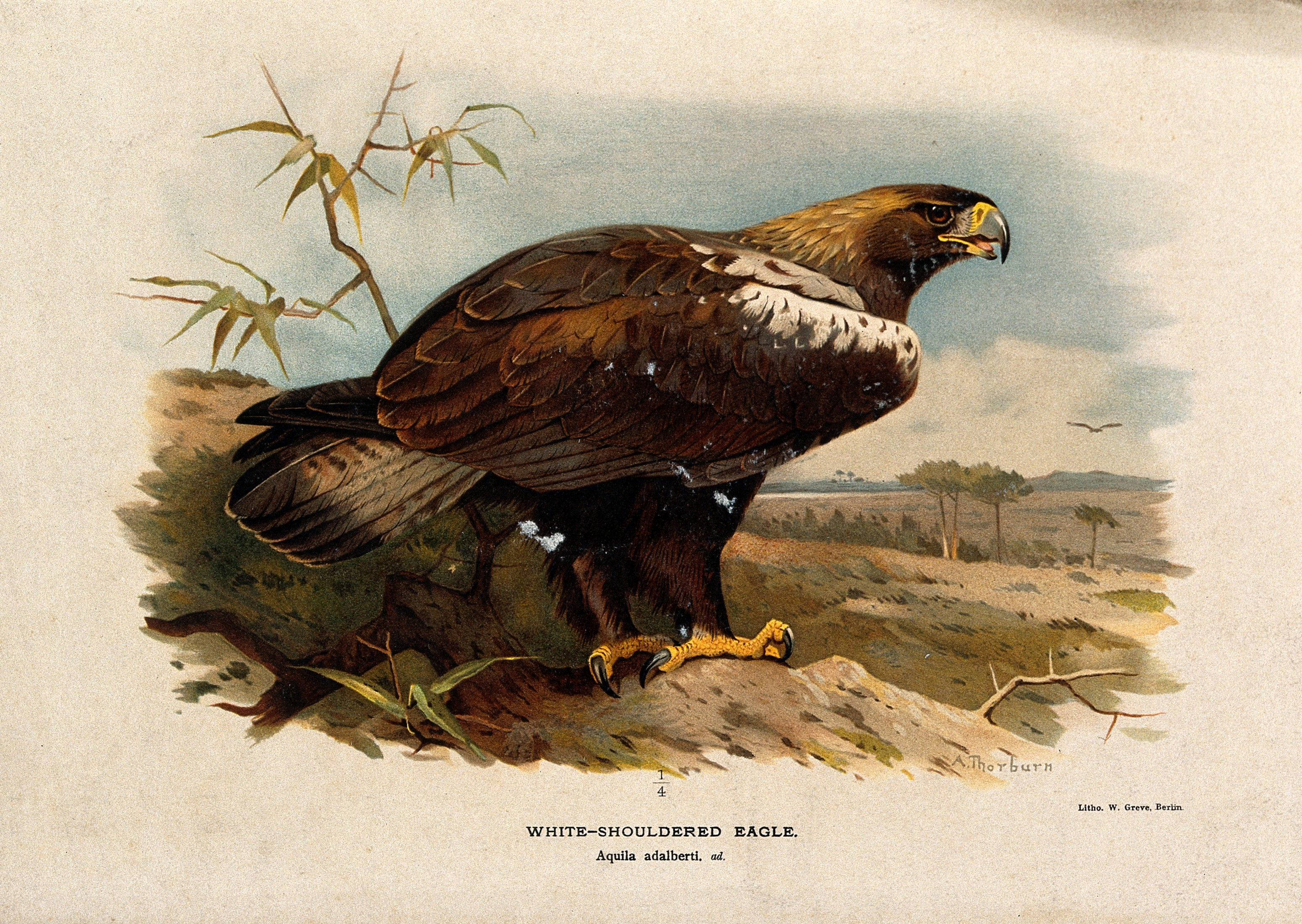 A white-shouldered eagle (Aquila adalberti). Chromolithograph by W. Greve after A. Thorburn, ca. 1885. Iconographic Collections Keywords: Archibald Thorburn; Wilhelm Greve